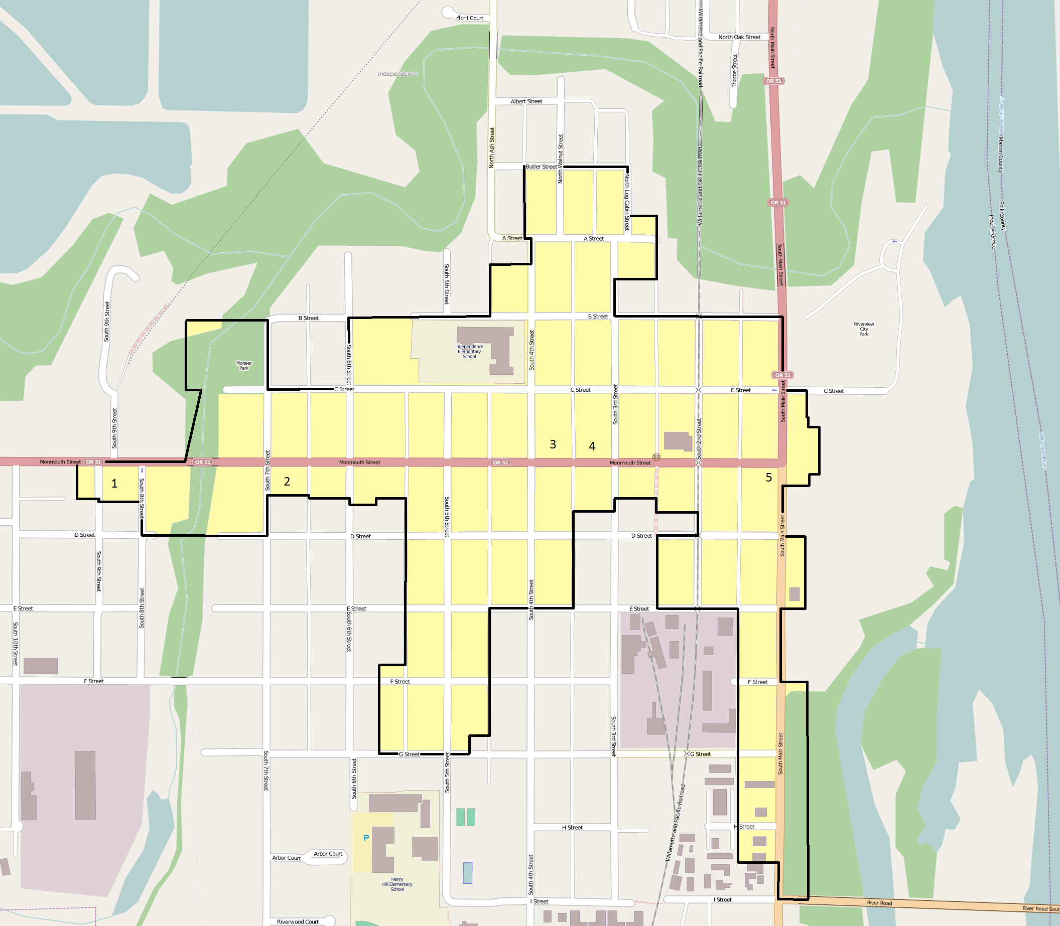 Map showing the boundaries of the Independence Historic District in Independence, Oregon, United States. The historic district is listed on the US National Register of Historic Places. Boundary data is derived from the historic district's National Register nomination form. Black boundary/yellow area: Independence Historic District boundaries. Numbers: Represent the locations of contributing resources in the historic district that are also listed individually on the National Register: Dr. John E. and Mary D. Davidson House Kersey C. Eldridge House J. A. Wheeler House Saint Patrick's Roman Catholic Church (former) Independence National Bank